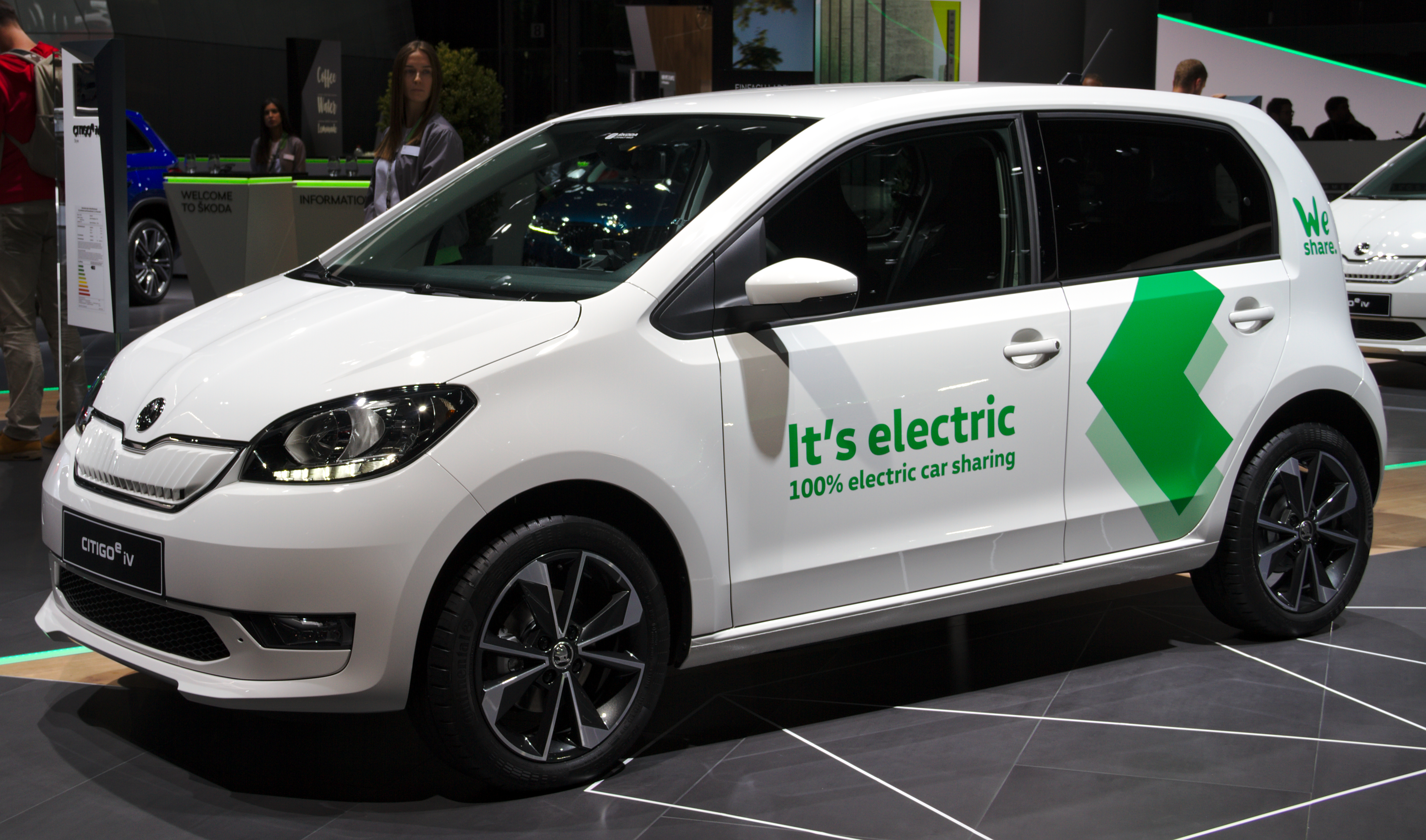 Skoda_Citigo-e_iV at IAA 2019